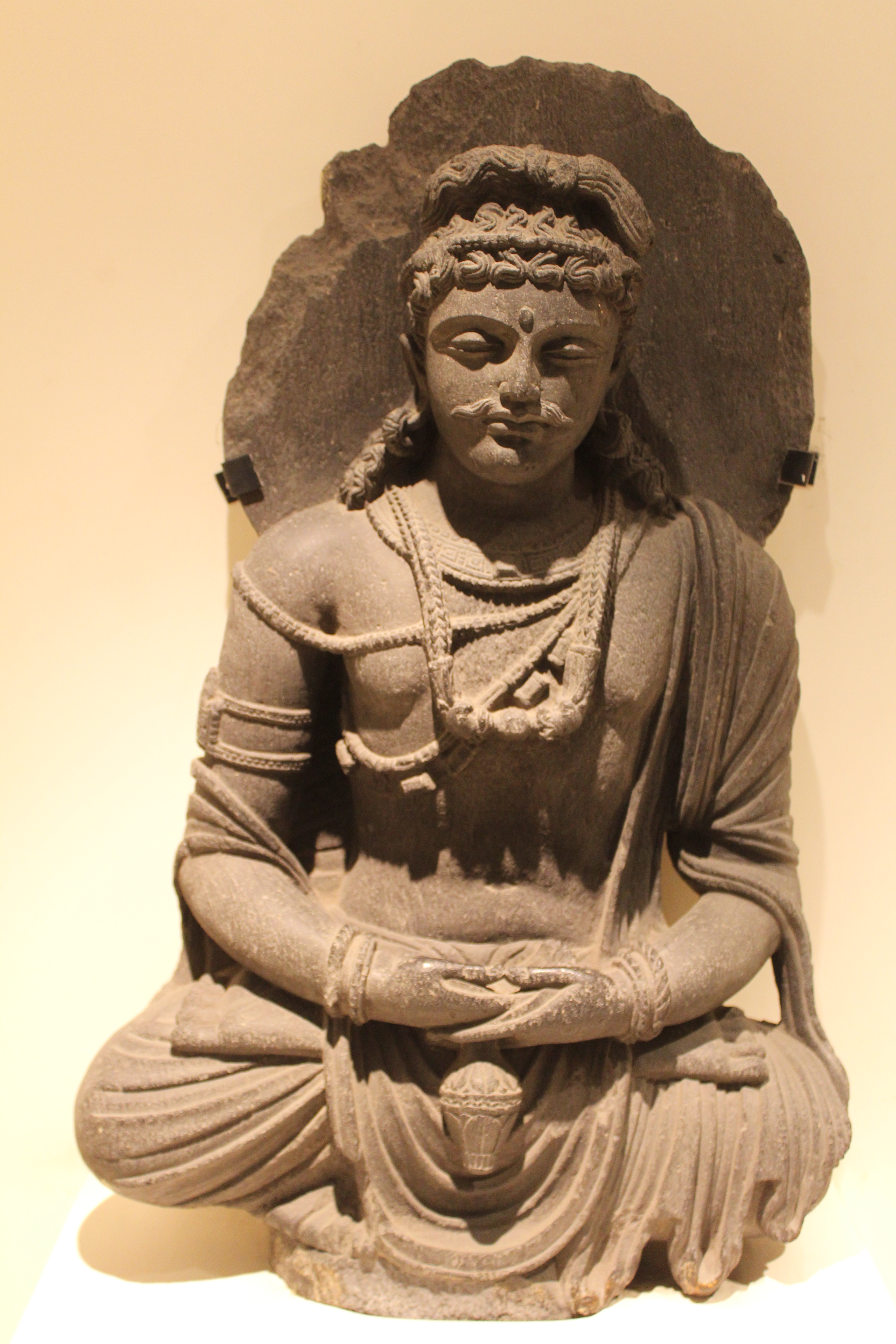 Gandhara Gallery of Indian Museum in West Bengal.